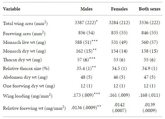 Summary of morphological characteristics of male (n=47) and female (n=45) monarch butterflies from the 2015 study. All monarchs were reared in captivity under uniform conditions and fed greenhouse-grown milkweed. The table shows means with standard deviations in parentheses. Asterisks indicate significant differences between sexes based on Student’s t-tests.